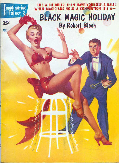 Cover of Imaginative Tales, January 1955